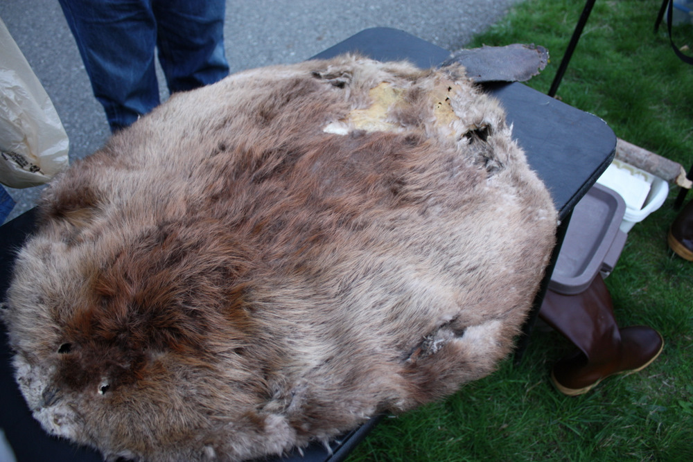 Photos from a Fall 2010 free walk at Meadowbrook Pond, where we learned about the beavers that make their home there. Please see the Seattle Natural Selection blog for a post on the event.